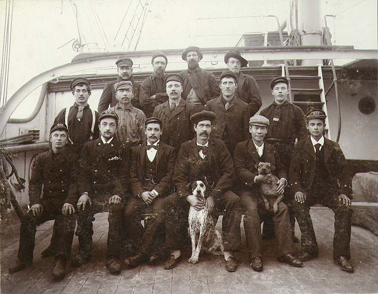 The ship, newly arrived from China, capsized during a storm in Commencement Bay shortly after this photograph was taken. Most of the crew and her officers were lost; not a single man in this photograph survived. Subjects (LCTGM): Sailors--Washington (State)--Tacoma; Dogs--Washington (State)--Tacoma Subjects (LCSH): Andelana (Bark); Barks (Sailing ships)--Washington (State)--Tacoma; Portraits, Group--Washington (State)--Tacoma